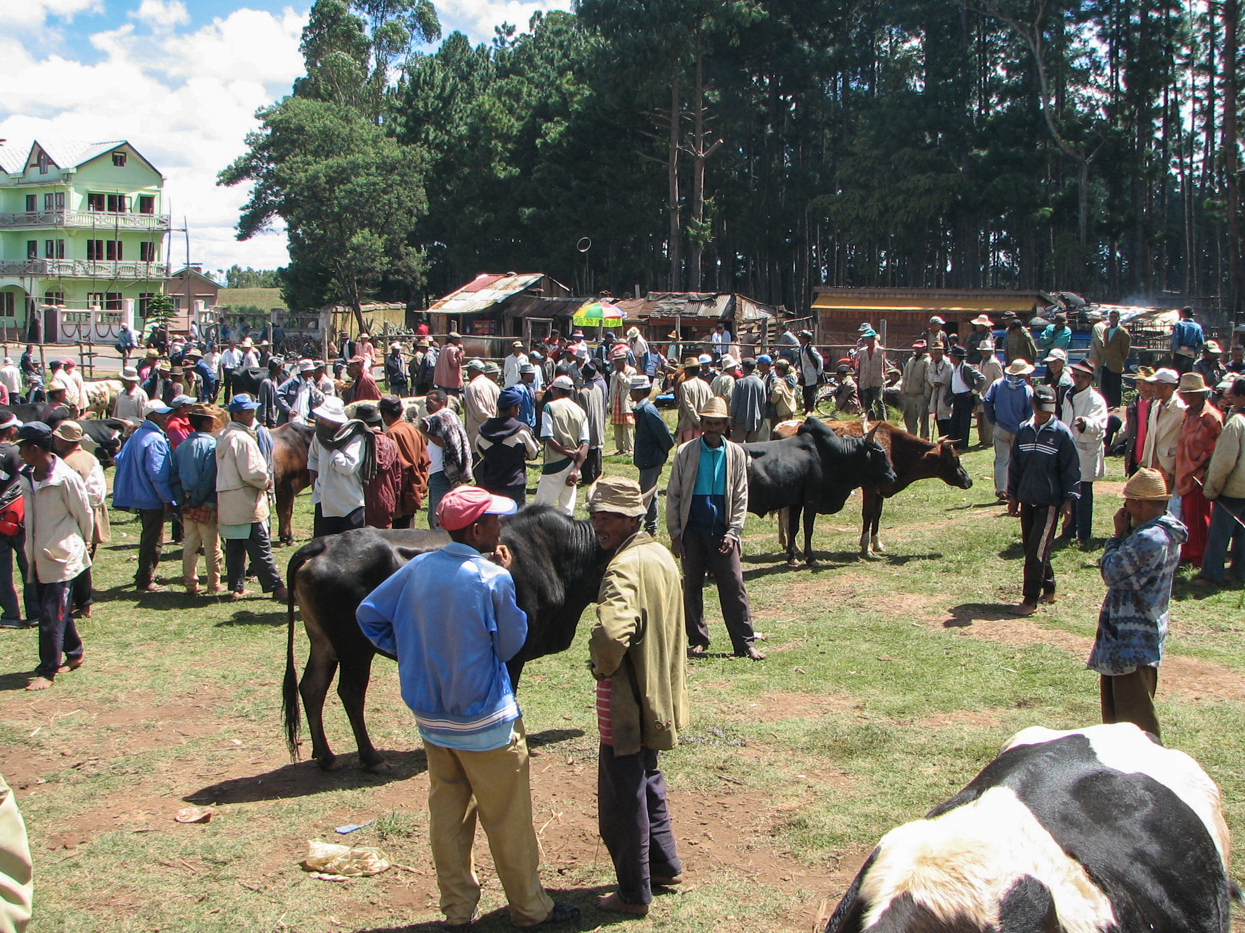 Zebus market at Ambatolampy, Madagascar